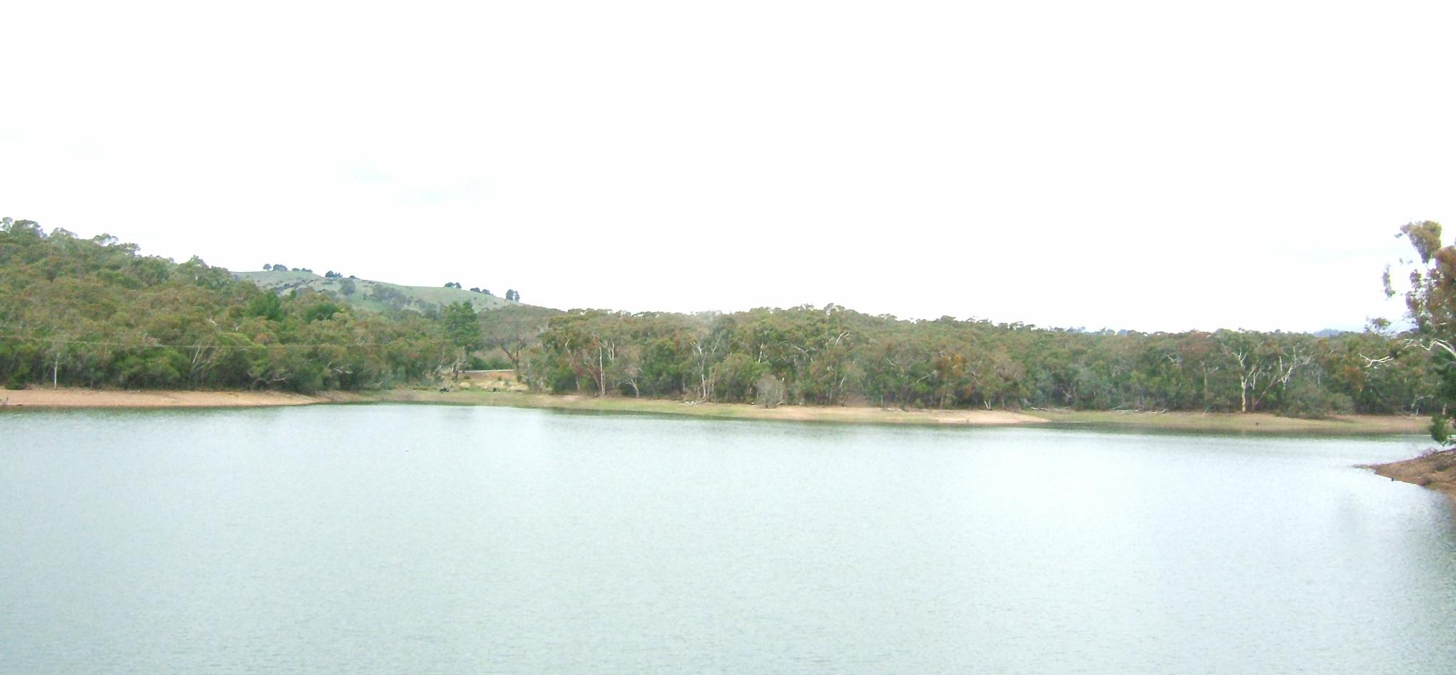 Millbrook Reservoir Millbrook, South Australia